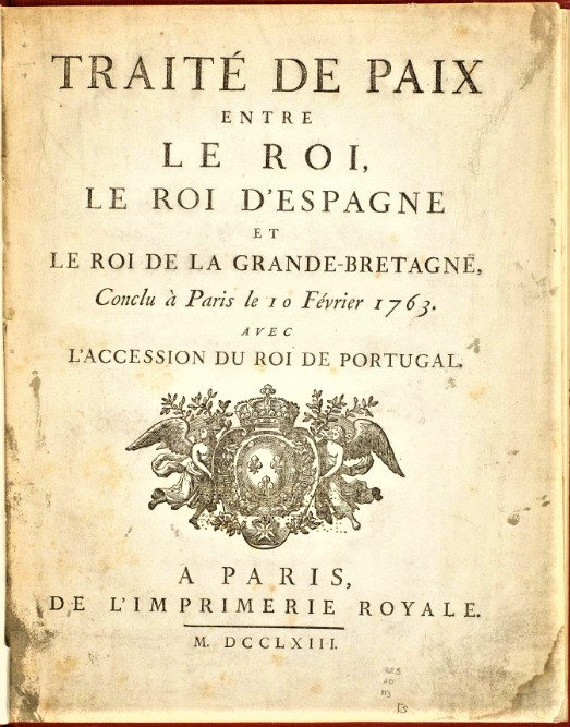 Treaty for the cession of Canada from France to Great-Britain. Other issues contained in this treaty dealing with Spain as well. This original picture source file comes from Répertoire du patrimoine culturel du Québec, Gouvernement du Québec, Canada